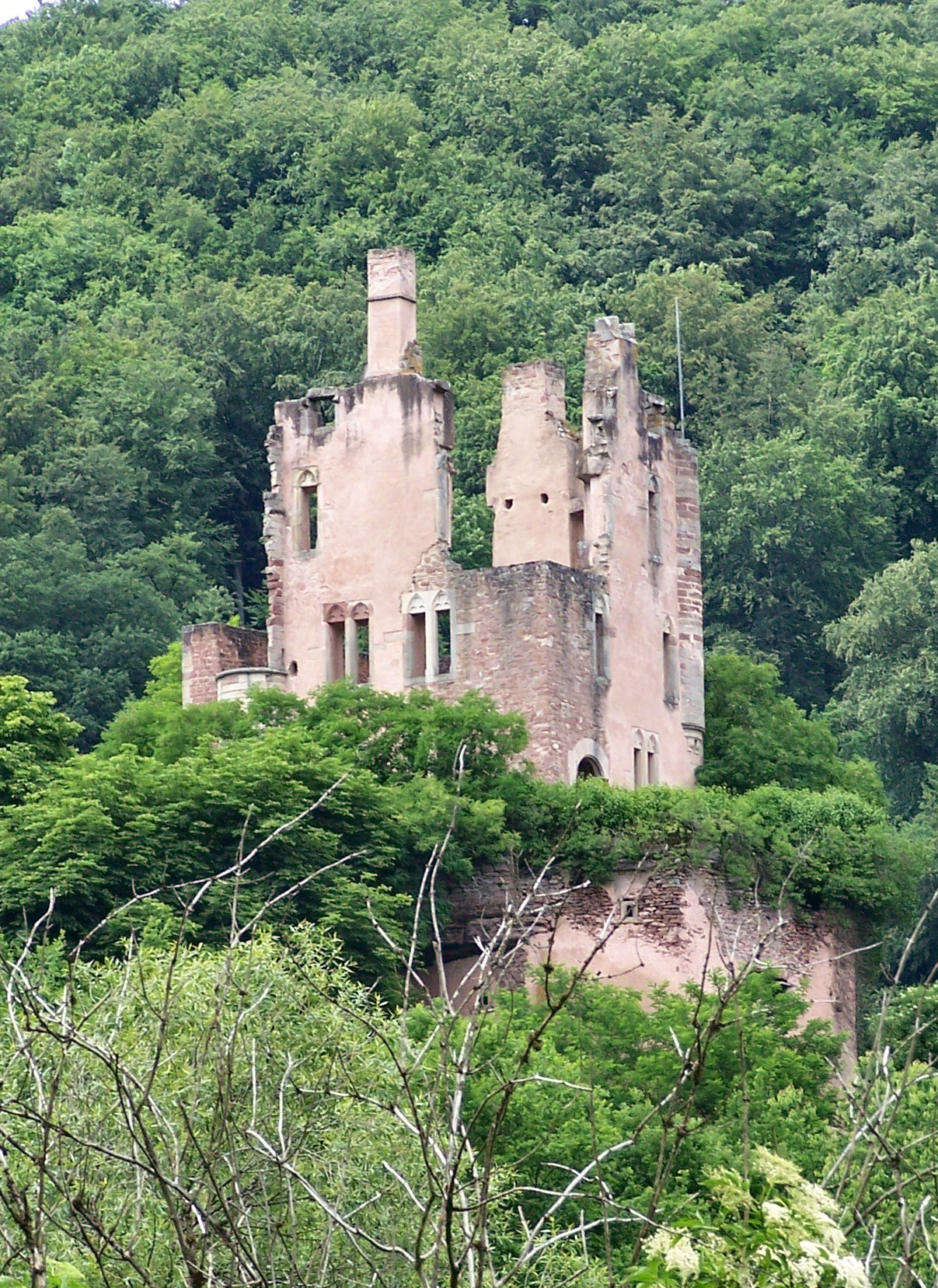 Ruins of Burg Ramstein seen from the Kylltal bicycle route, south of the ruins.